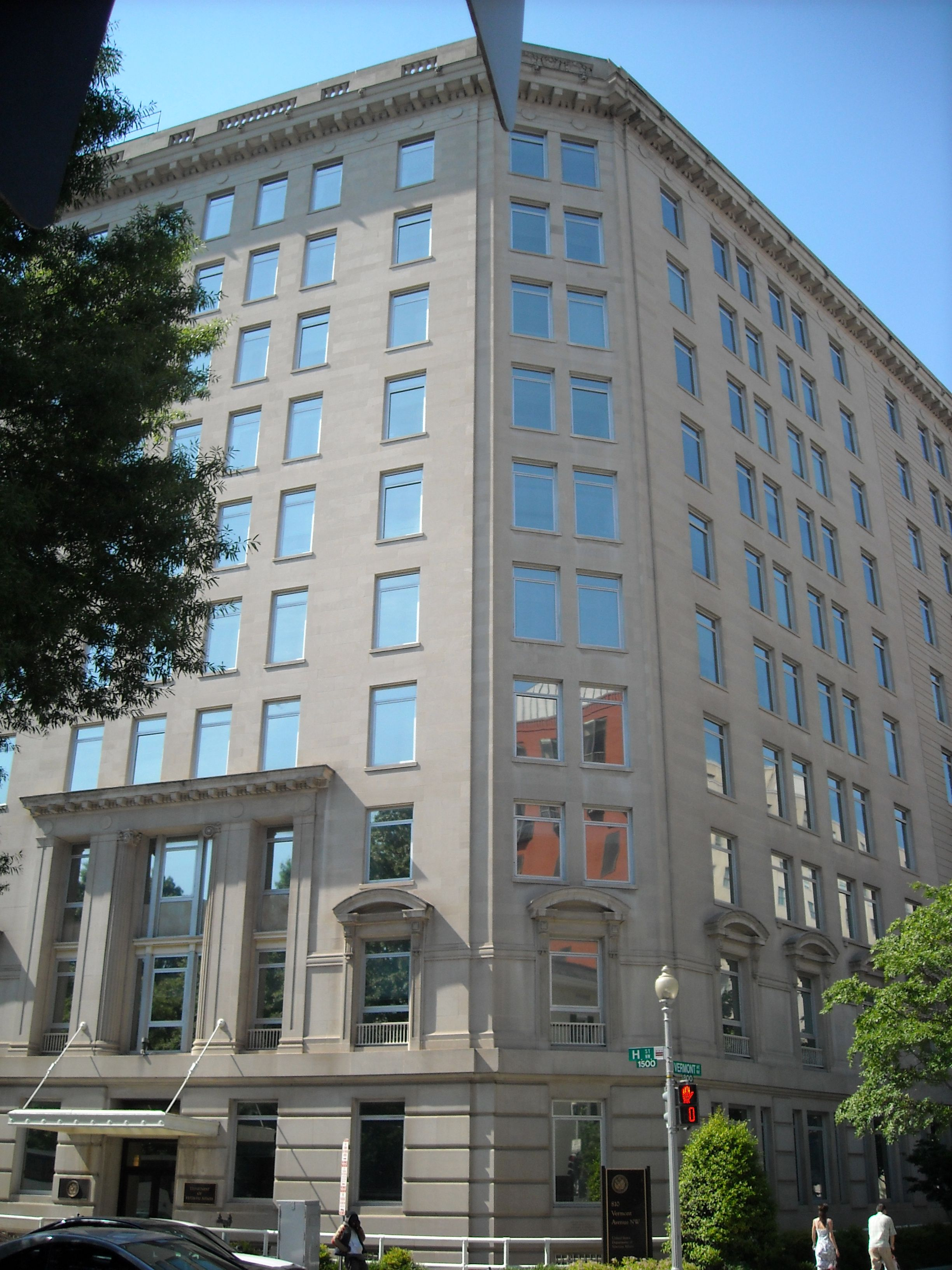 Department of Veteran Affaird building on H Street, NW in Washington, D.C.